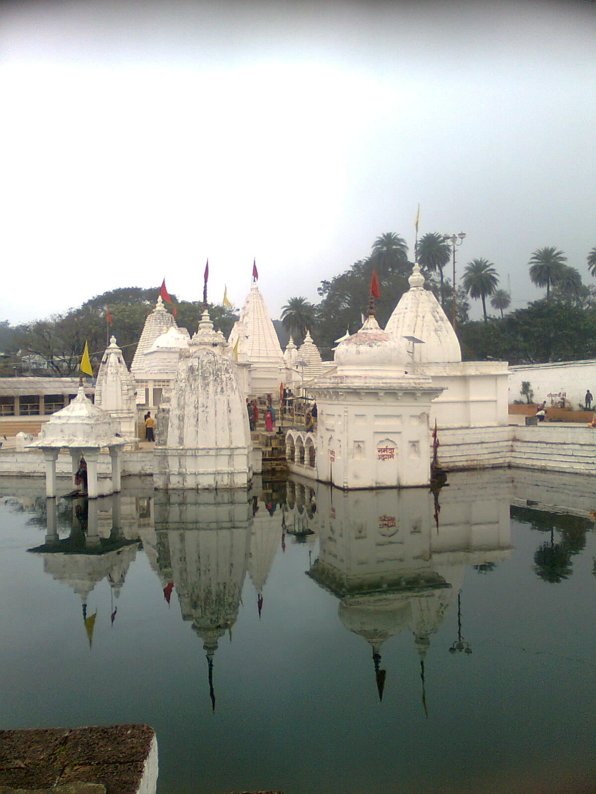 this temple is at indian satate of madhya pradesh in amarkantak this temple is of indian godess narmada and the water is shown is the origin of indian river NARMADA